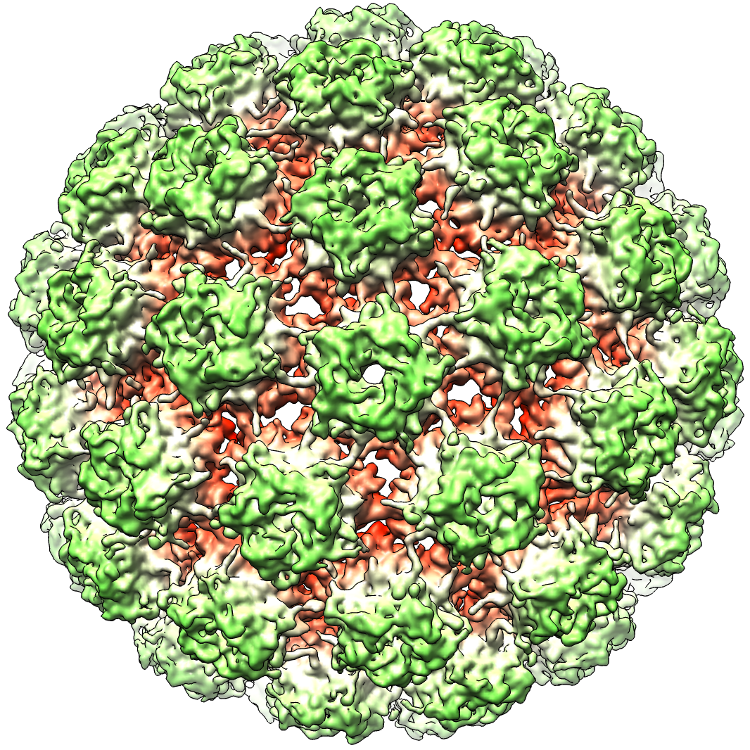 3D Structure of Bovine Papillomavirus (BPV) Capsid. Atomic coordinates taken from PDB id 3IJY convert to a density file using the EMAN package and imaged using the UCSF Chimera molecular viewing program.